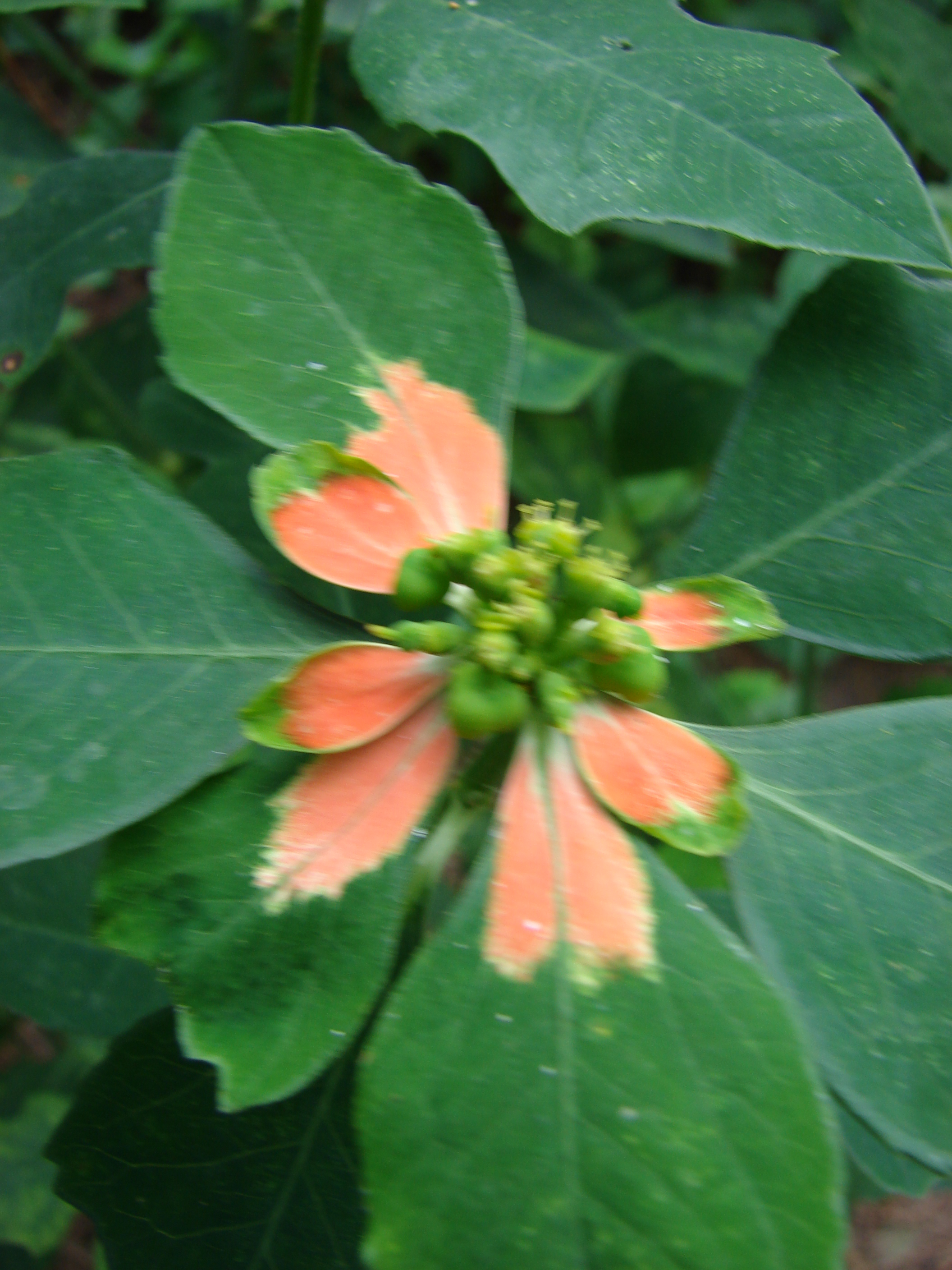 Euphorbia cyathophora (leaves). Location: Midway Atoll, West Beach Sand Island